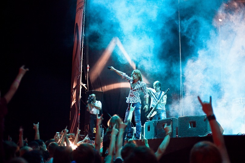 RockCrime_krock